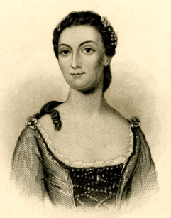 Portait of American poet, Elizabeth Graeme Fergusson.